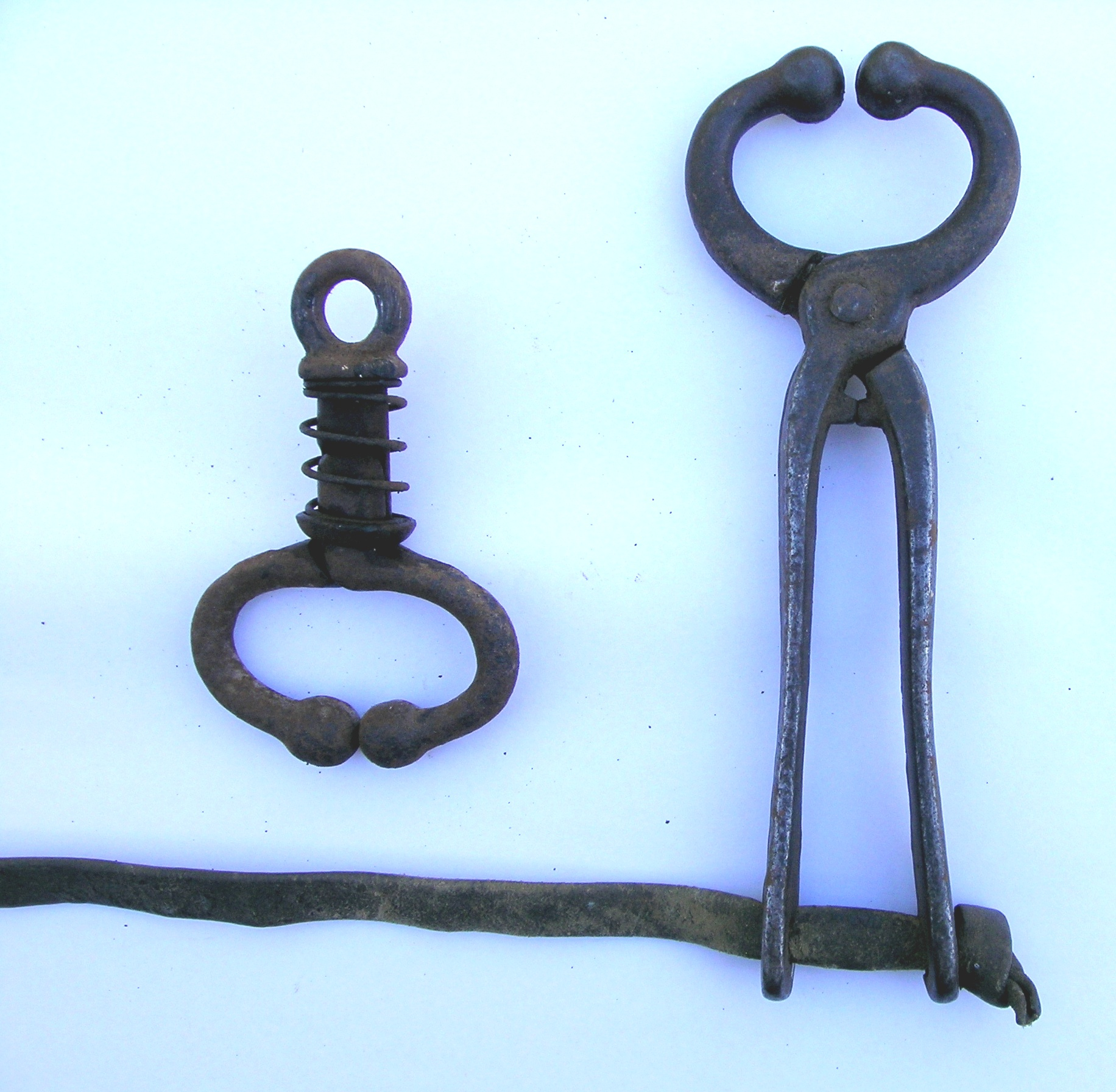 Show lead nose ring and a bull holder.